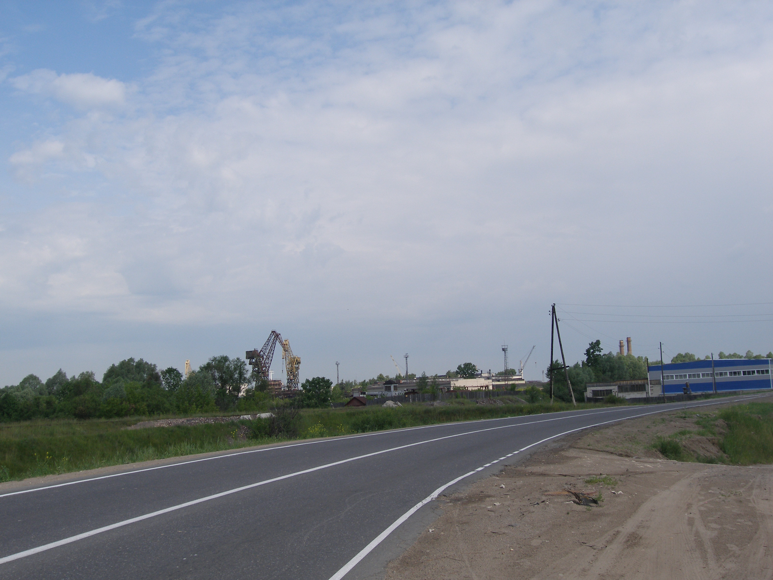 Navashino, Nizhny Novgorod Oblast